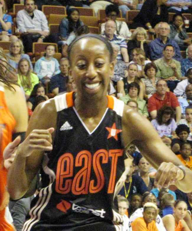 Allison Hightower at 2013 WNBA All-Star game at Mohegan Sun 27 July 2013